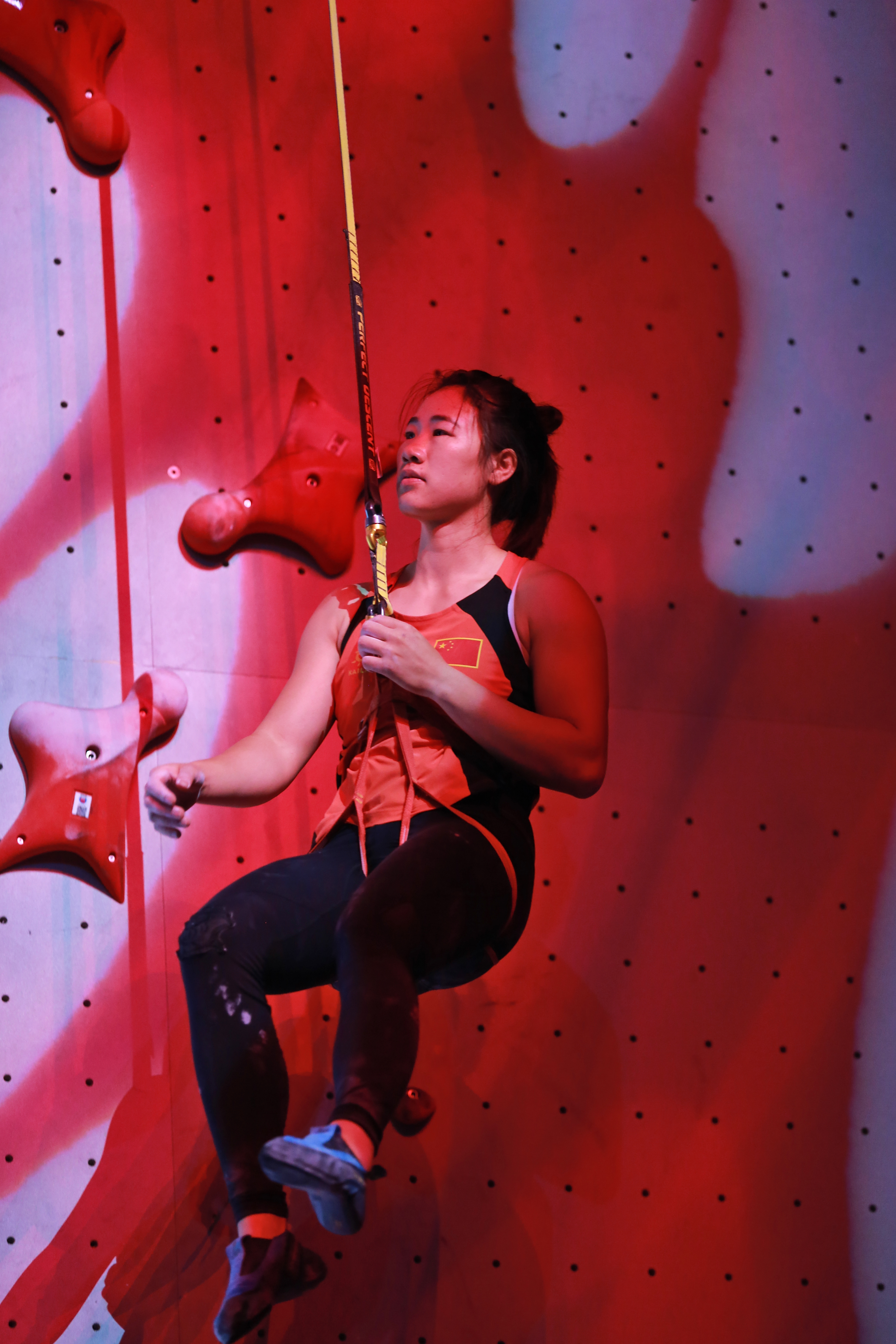 Climbing World Championships 2018 Speed Eighth-finals